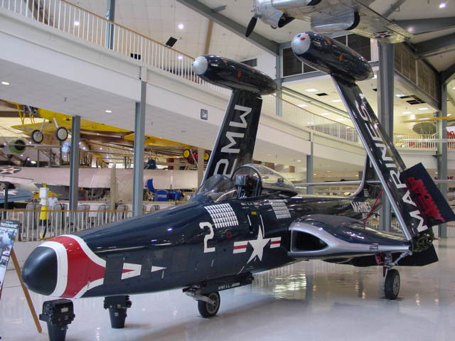 A McDonnell F2H-2P Banshee reconnaissance plane at the National Museum of Naval Aviation, Pensacola (Florida, USA). The aircraft is painted in the markings of BuNo. 126673, an aircraft flown by Marine Photoreconnaissance Squadron VMJ-1 during the Korean War (1950-53). It was located from 1959 to 1988 in the Pocahontas Park, Vero Beach (Florida), filled with cement and buried in sand on a playground. It was acquired by the museum in 1989 and restored.aeq